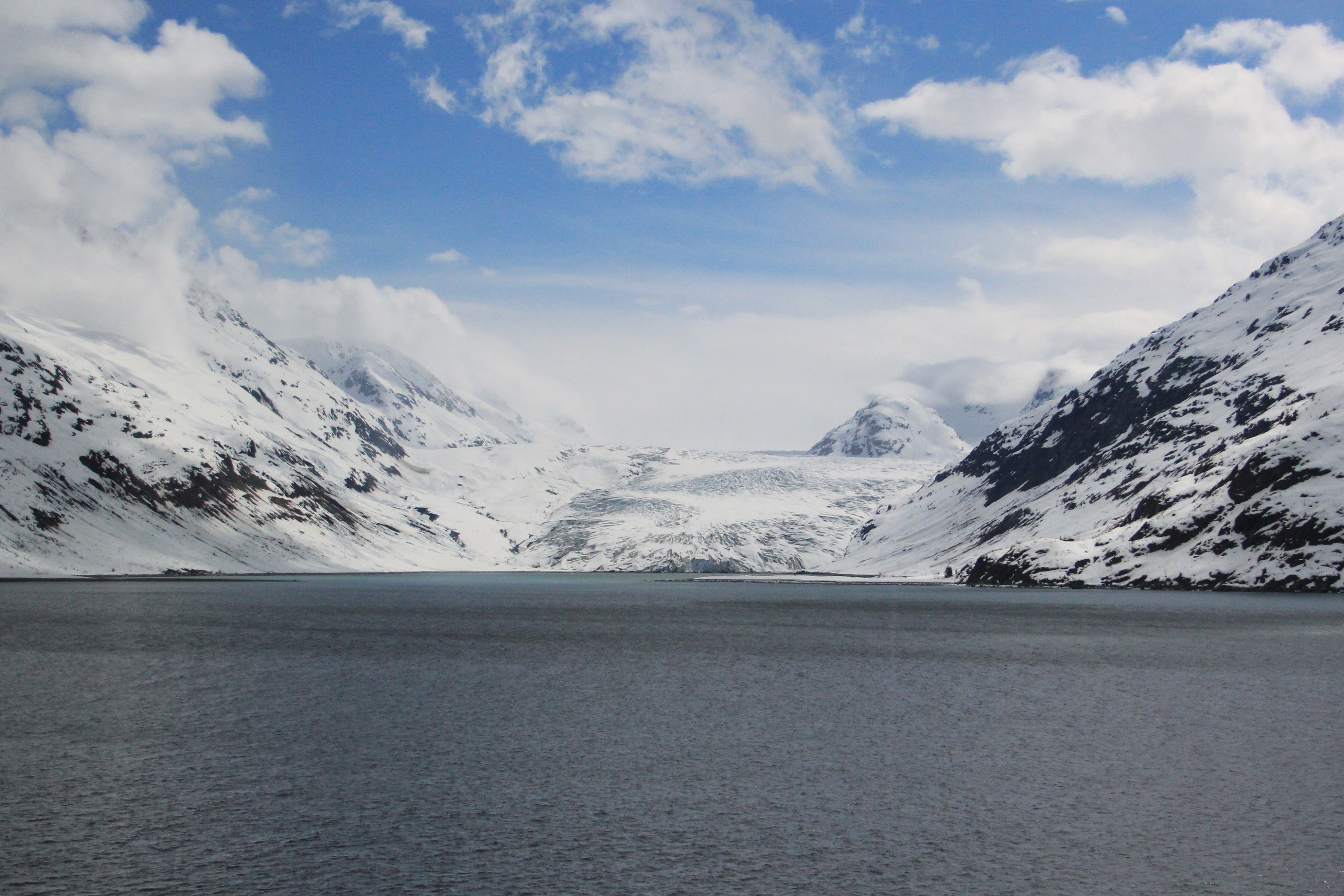 Reid Glacier in Alaska, 2013